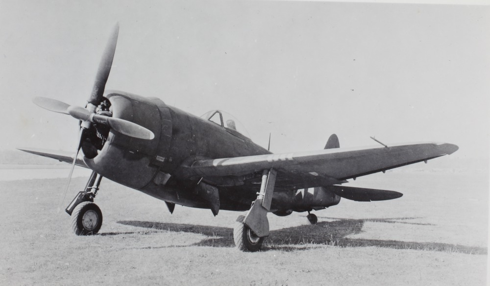 PictionID:42002267 - Title:Republic XP-47K Thunderbolt XP-47K, 42-8702. As an experiment to improve the rearward visibility, the USAAF fitted a standard P-47D-5-RE airframe (serial number 42-8702) with a bubble canopy taken from a Hawker Typhoon. In order to accommodate the bubble canopy, the Republic design team had to cut down the rear fuselage. This conversion was re-designated XP-47K, and was tested in July 1943. - Catalog:15_002975 - Filename:15_002975.TIF - Repository: San Diego Air and Space Museum Archive